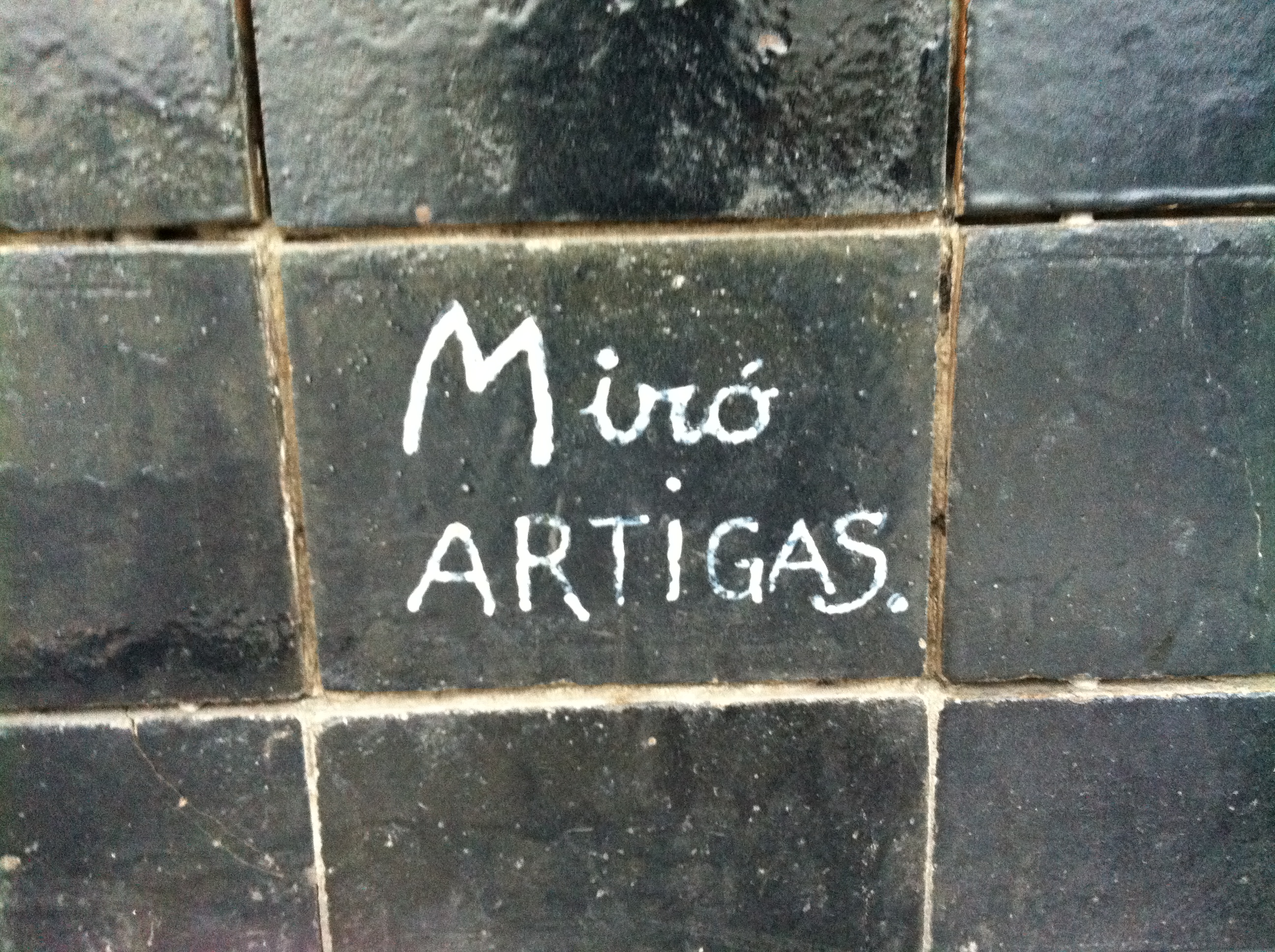 Miró Artigas signature at Barcelona Airport Mural